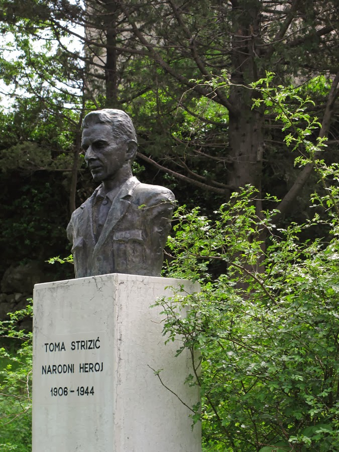 Bust of People's hero of Yugoslavia, Tomo Strižić, Bribir.